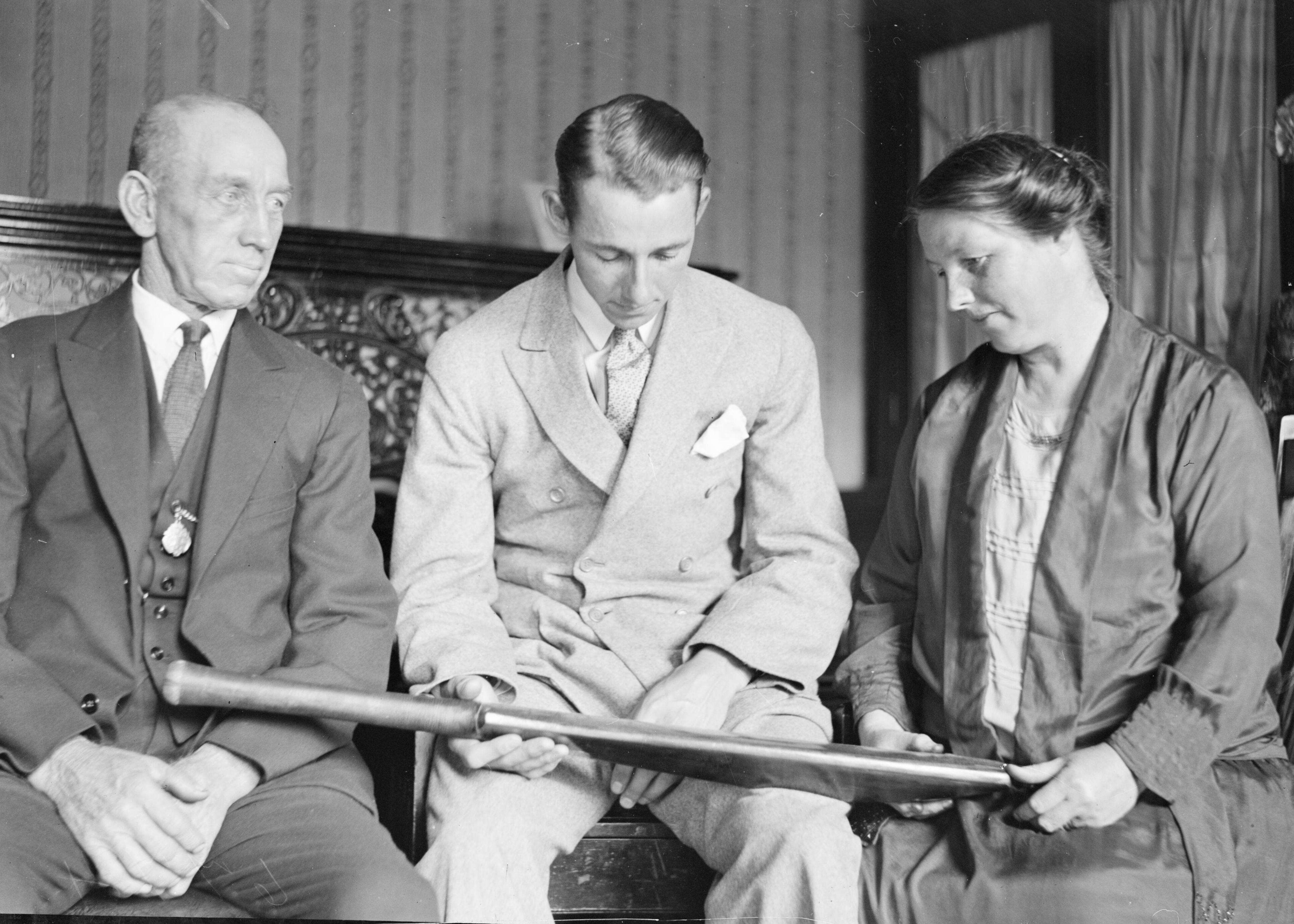 Australian cricketer Archie Jackson with his parents